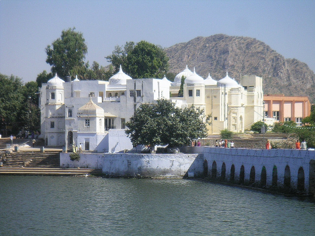 Bridge at the corner of the Pushkar lake, Rajasthan.